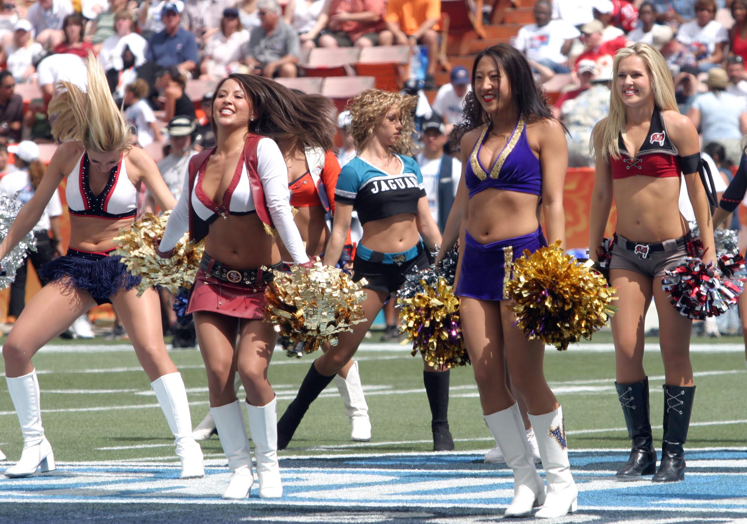 Cheerleaders entertain the fans during the game. Each NFL team had one of their cheerleaders present at the 2006 Pro Bowl to represent their team. Name of persons in photo: not identified, (extreme left) Kristin Biesel, San Francisco 49ers (2nd from left) Aubrey Moore,Jacksonville Jaguars (center) Theresa Baugus (sp), Minnesota Vikings (2nd from right) Jennifer Abbott, Tampa Bay Buccaneers (extreme right)